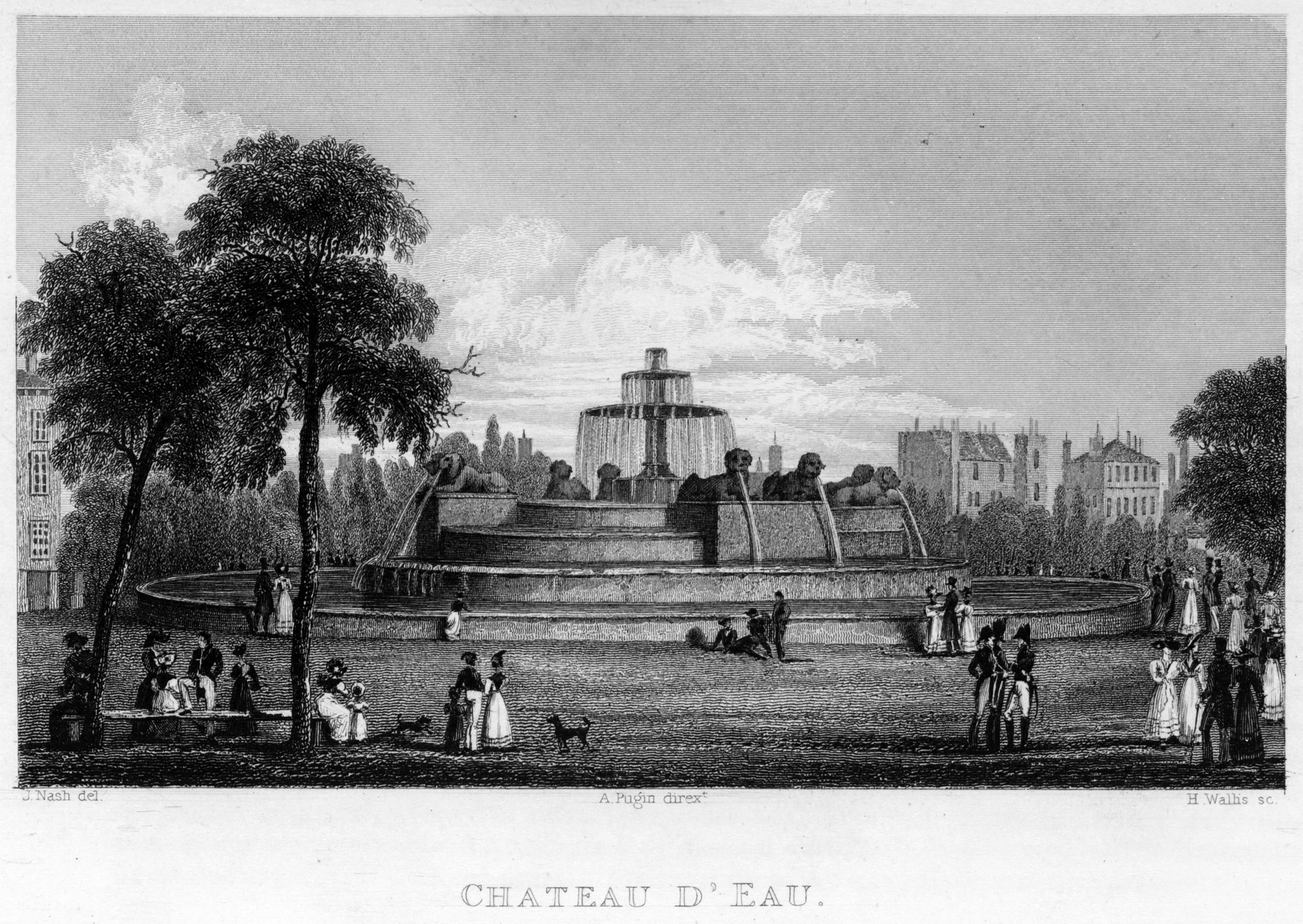 The Château d'eau was inaugurated in 1811 between the boulevard Saint-Martin and the rue de Bondy. Measuring 13 meters in diameter and 5 meters in height, the Château d'eau was a fountain featuring eight lions that expelled water into the main basin. The rapid development of the Place du Château d'eau resulted in an eventual rebuilding of the fountain in 1874. In 1883, however, the Château d'eau was once again permanently moved to make room for the statue of the République.